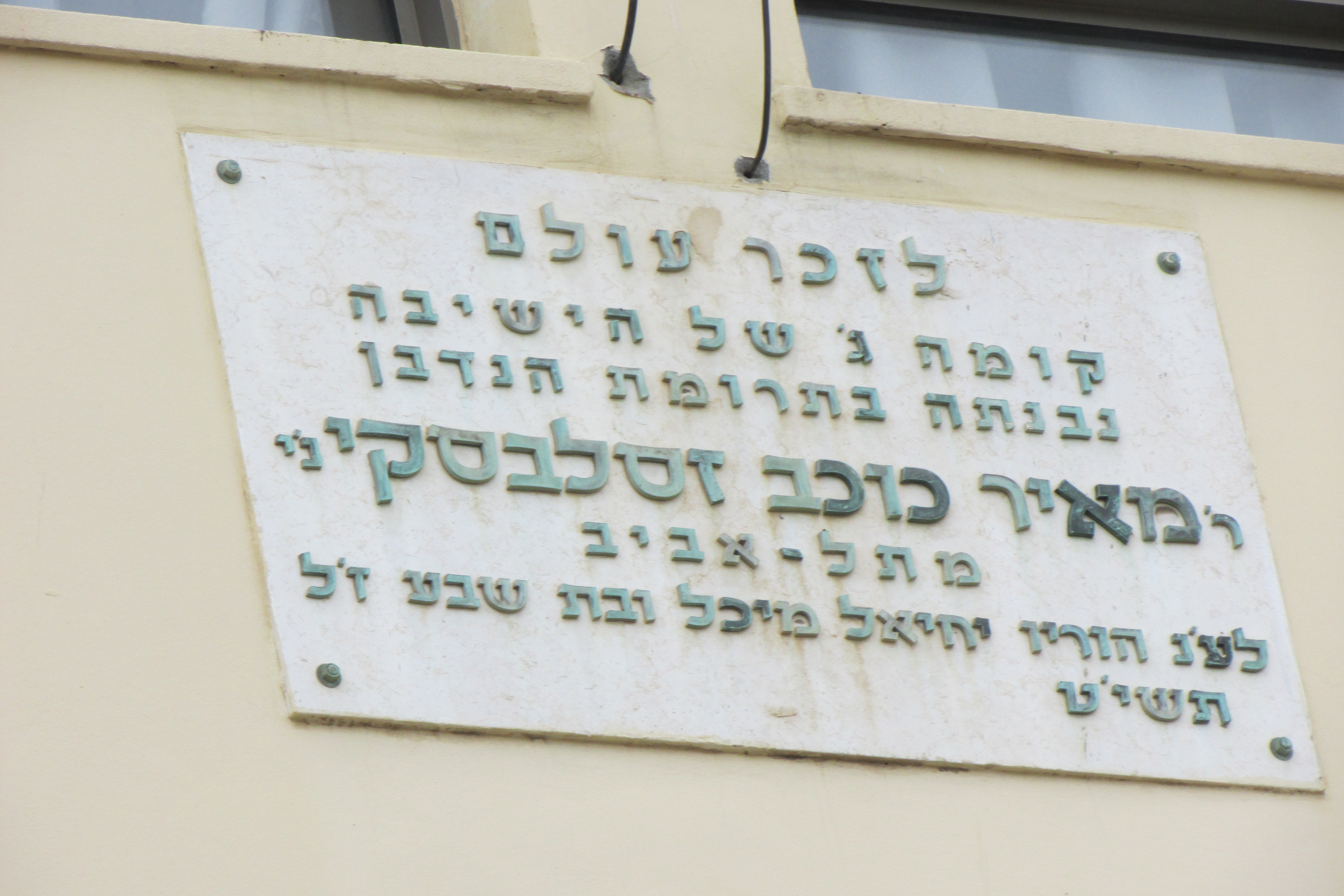 Buiding of Yeshivat Tel-Aviv, now Anchory school Dedication sign of third floor